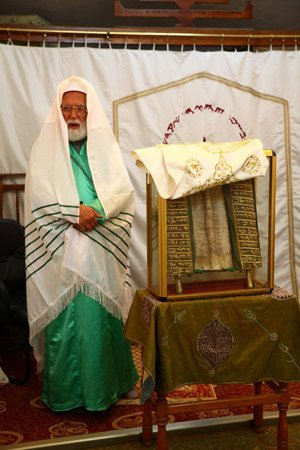 Samaritan High Preist Aabed-El ben Asher ben Matzliach